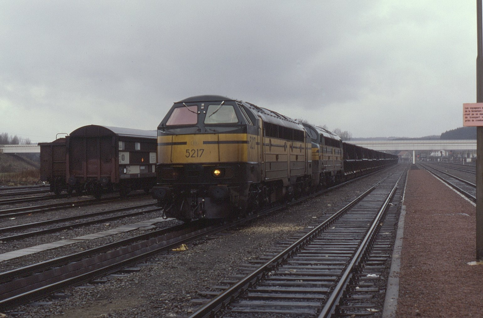 For many years Virton had a sparse passenger service of usually a single railcar on an alternate hourly service from Libramont. However it was a busy location for freight and several locos were noted stabled there on a visit there on 12 March 1988. Seen in this picture are 5217 and 5404 on a passing freight. Nowadays the passenger service continues through Virton on to Arlon via Rodange. Note: Once again the location map seems to be wrongly loaded with placenames. Closest spelling to Virton = Wirten.